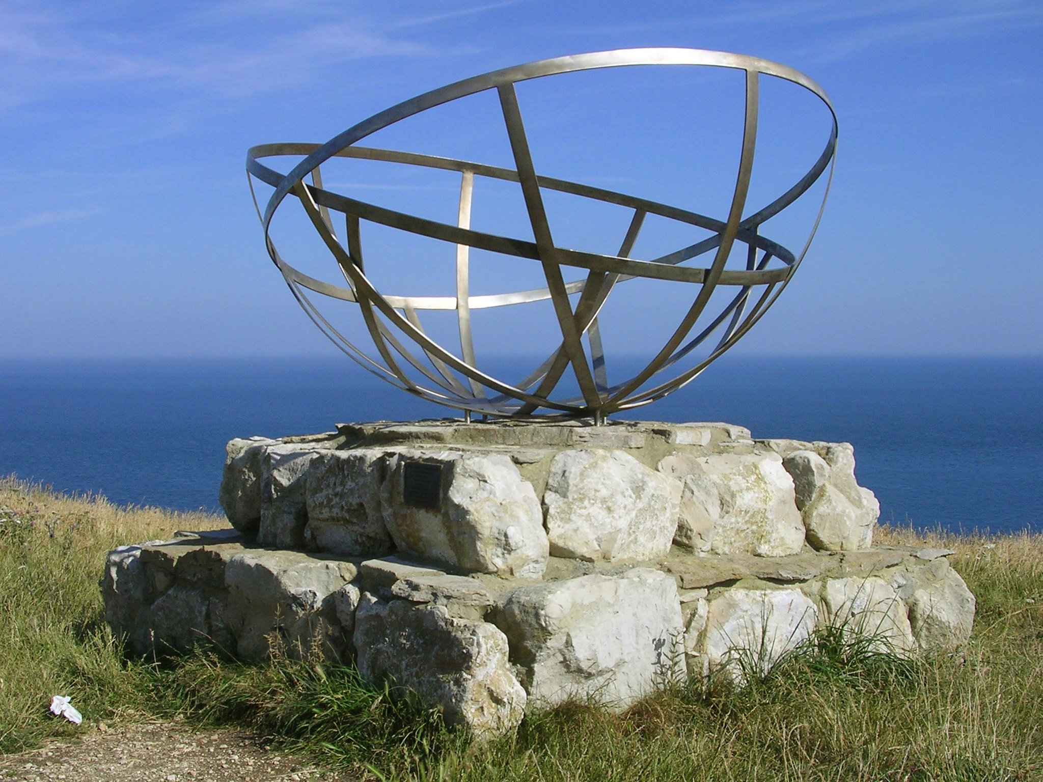 Radar research memorial at St Aldhelm's Head on the Isle of Purbeck, Dorset